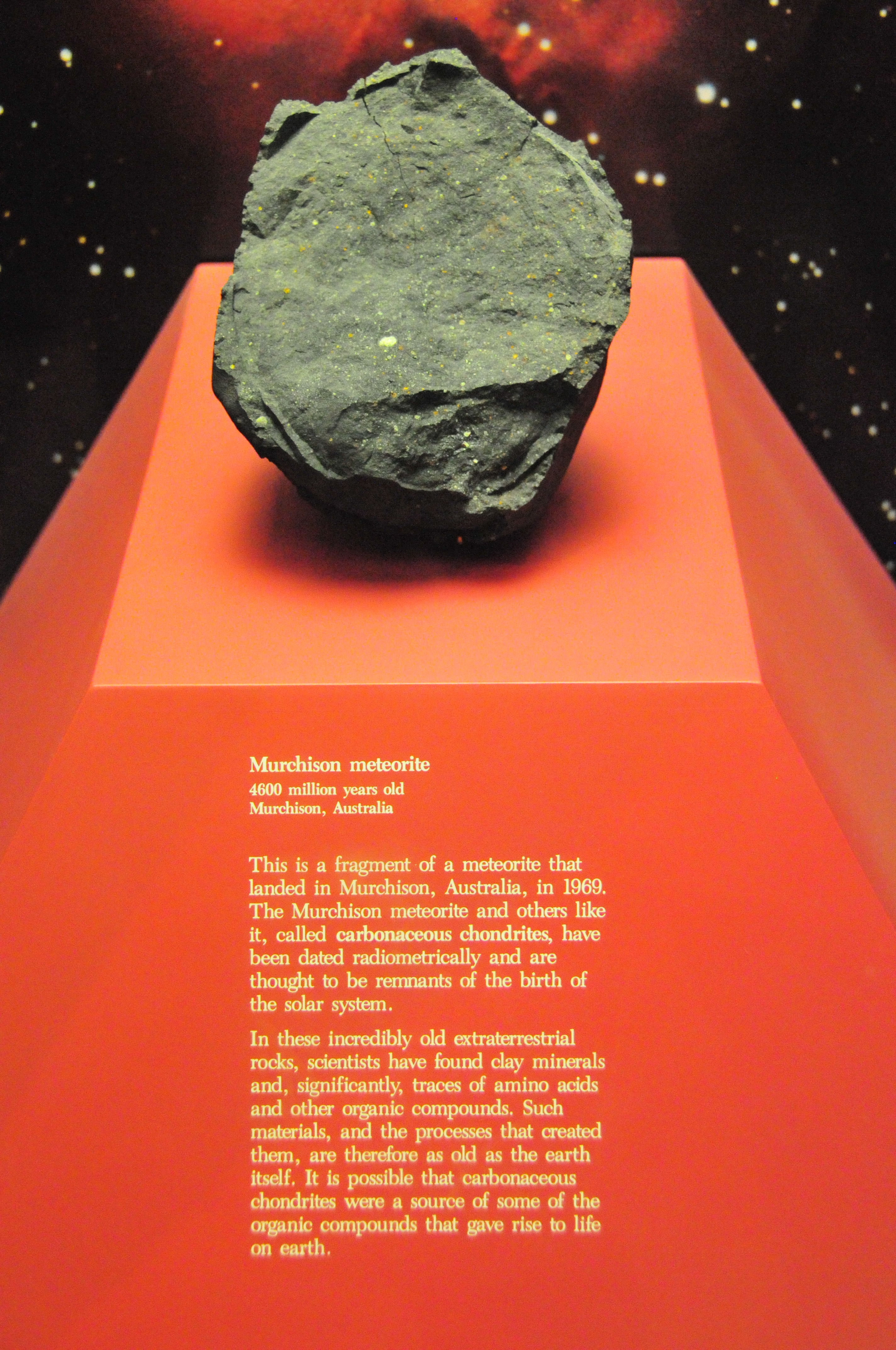 Murchison meteorite specimen at the National Museum of Natural History (Washington); a fragment of a meteorite that landed in Murchison, Australia, in 1969. (Carbonaceous chondrite)